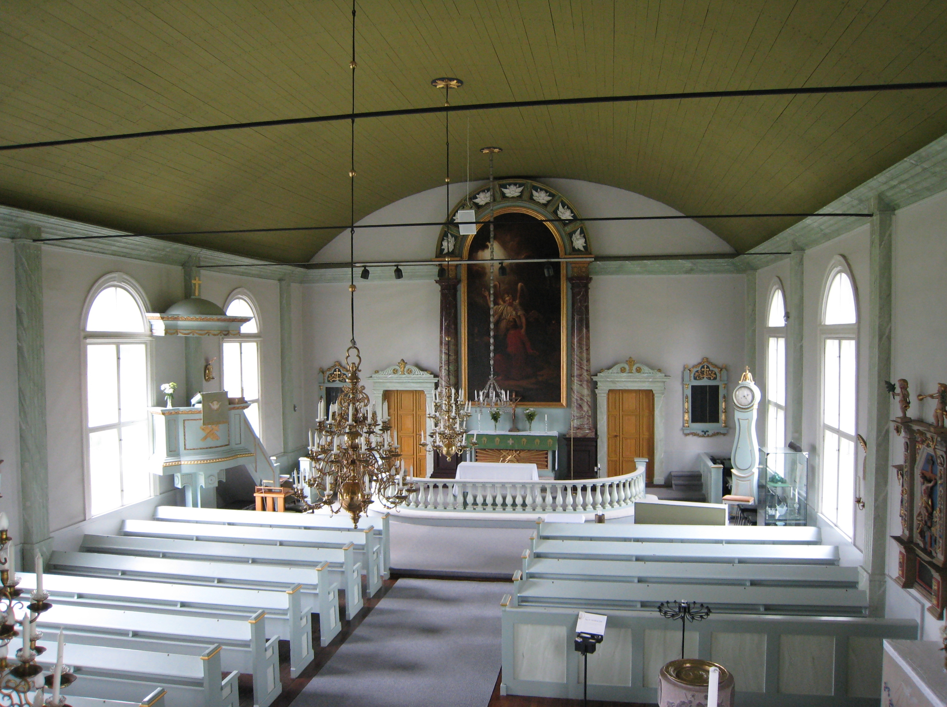 Ekeberga church.Interior of the organ loft